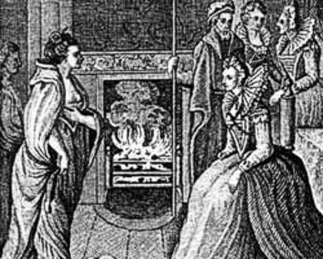 Gráinne Ní Mháille or Grace O'Malley, Sea Queen of Connemara, meeting Elizabeth I